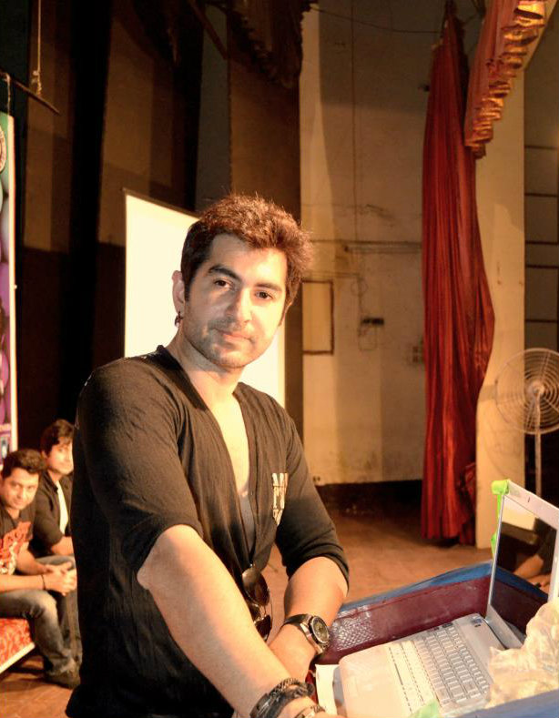 Jeet (actor bengali)